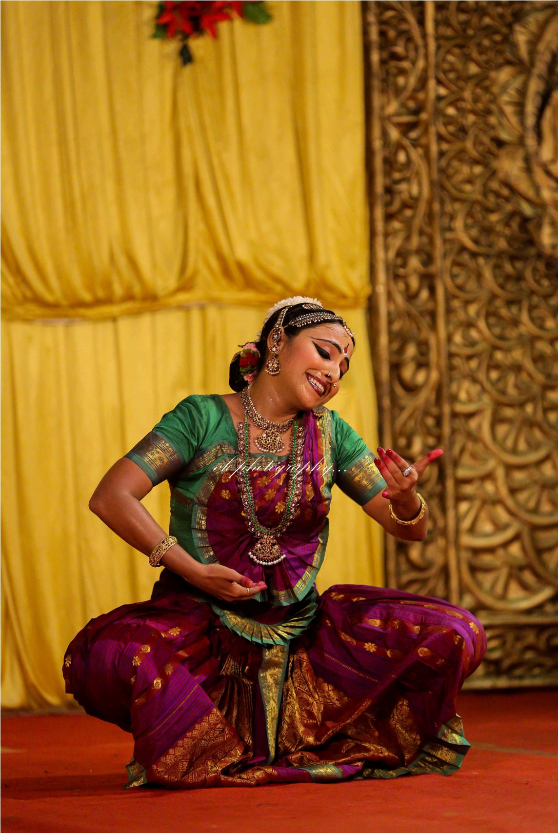 Captured at the Navarathri Dance Festival at the Magnificient heritage treasure, Madurai Meenakshi Amman Temple, Madurai.